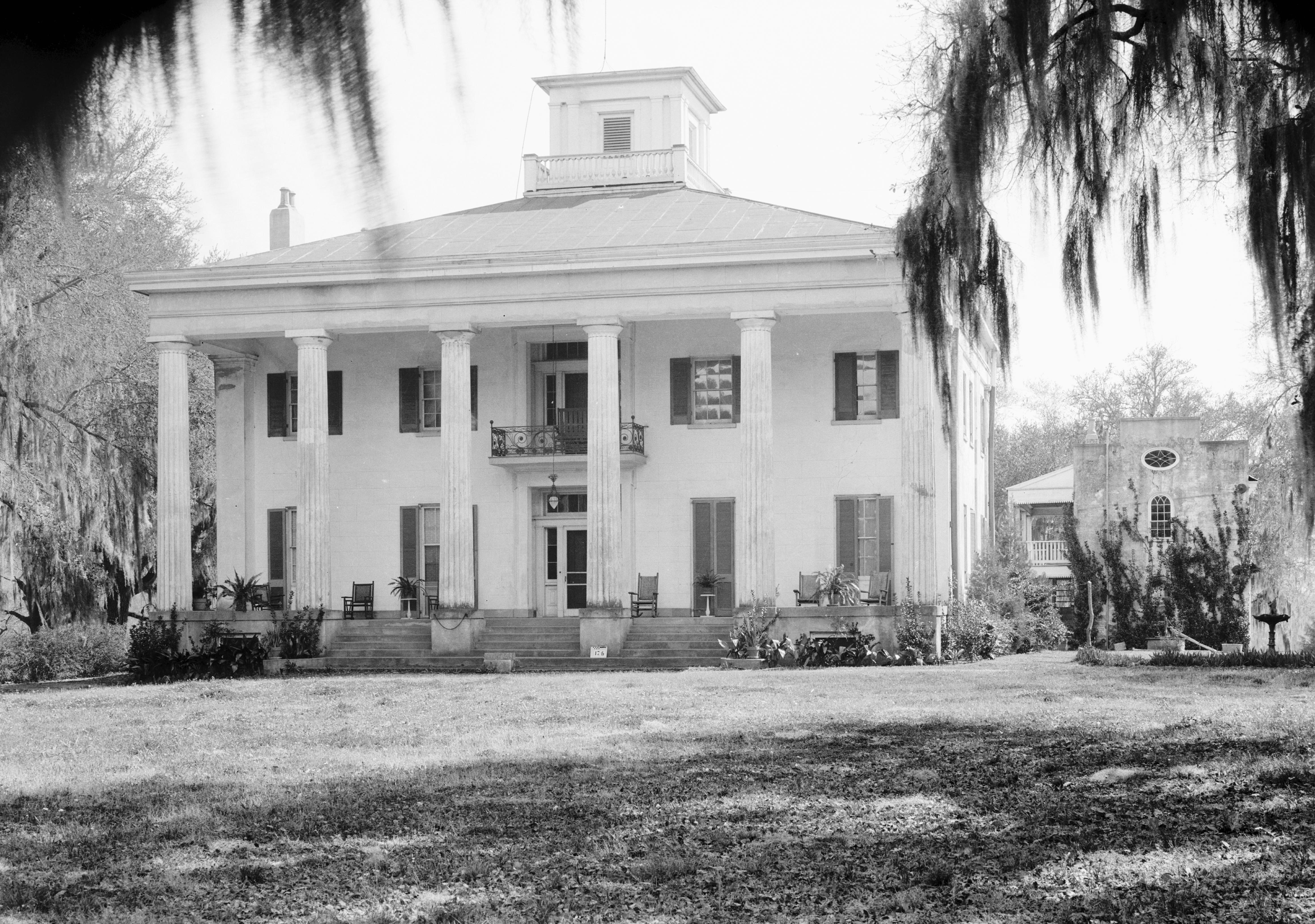 Front of D'Evereux, located on D'Evereaux Drive in Natchez, Mississippi, United States. Built in 1840, it is listed on the National Register of Historic Places.